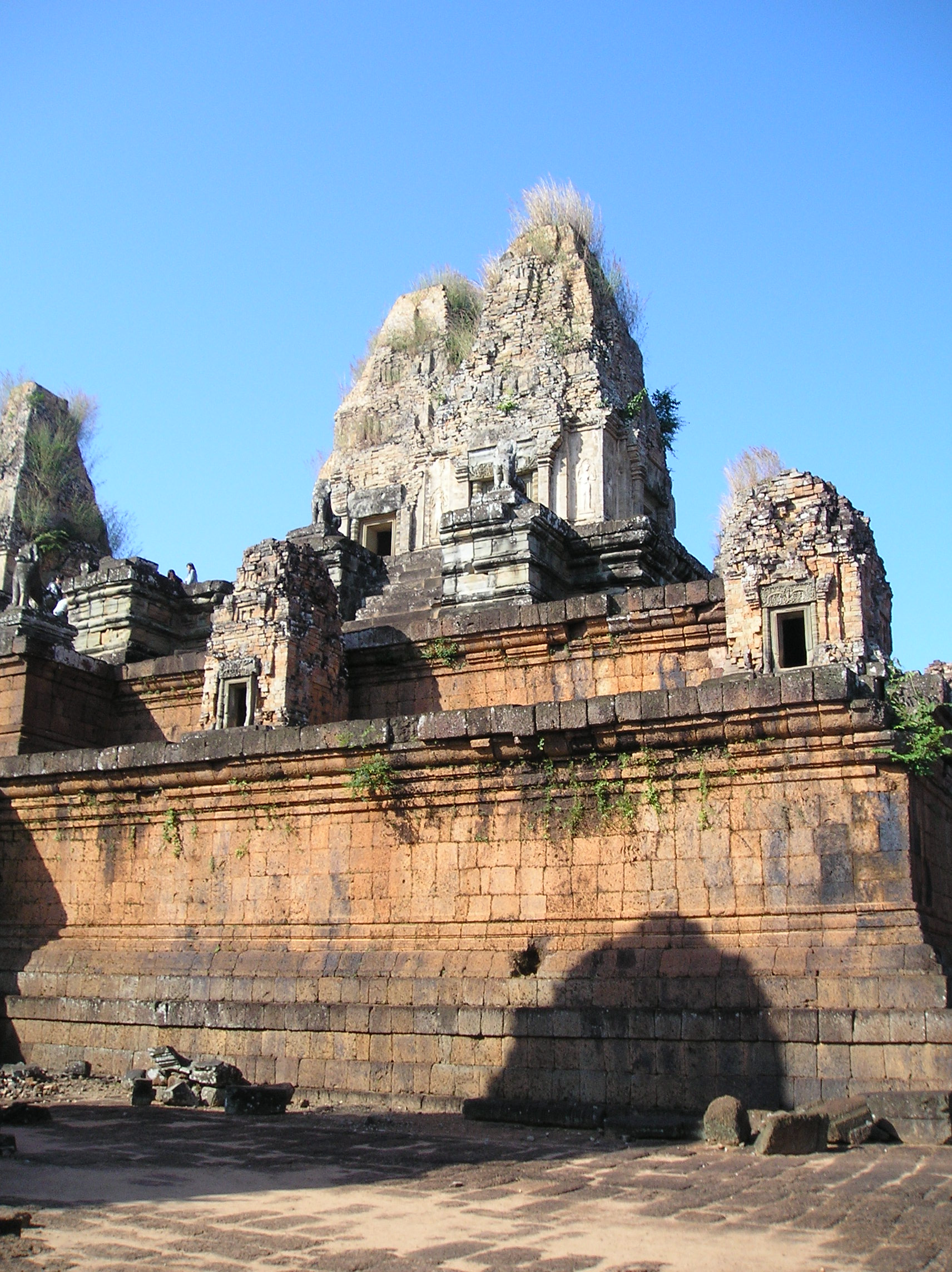 Photo by Writer128